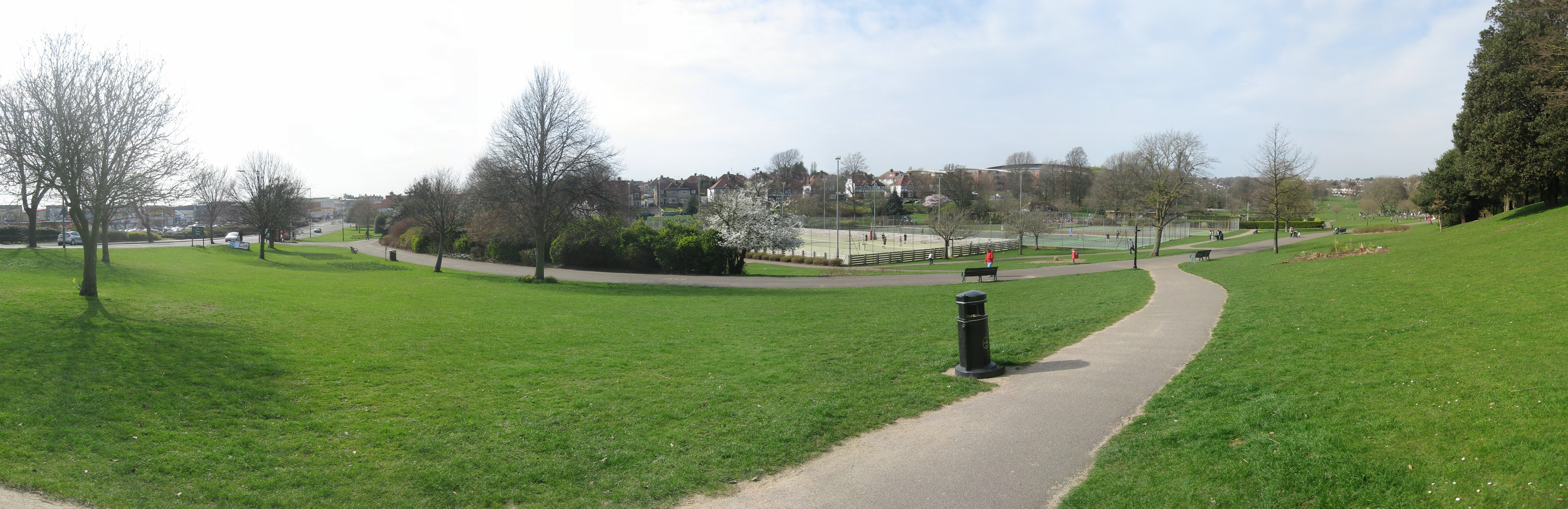 Panorama of Hove Park from South East corner.